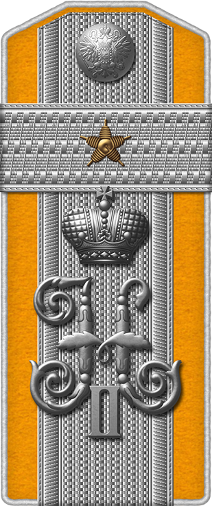 Zaurjad-praporshchik on Wachtmeister position of Squadron of Russian His Majesty's Cuirassier Guards Regiment